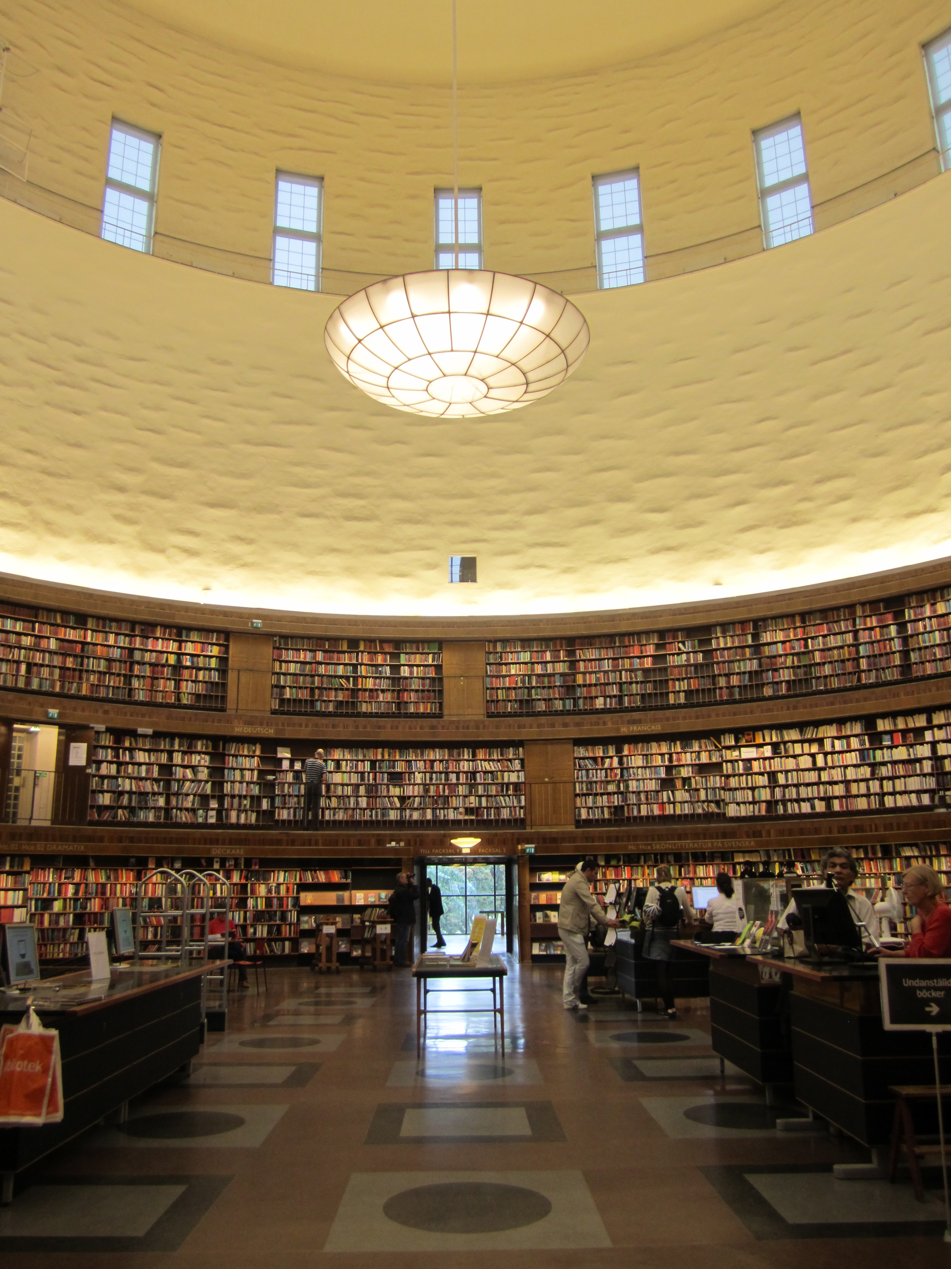 Stockholm Public Library